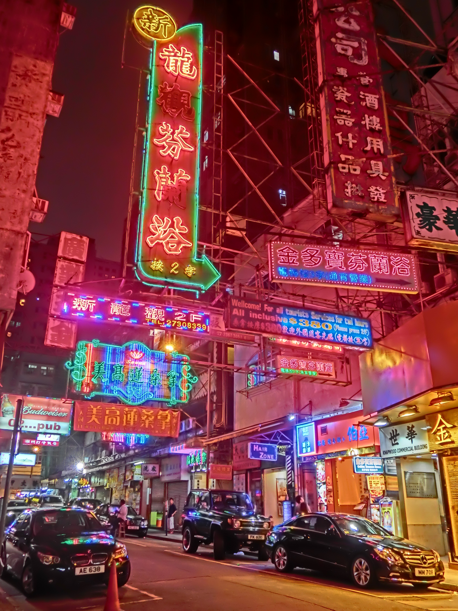 Night in Temple Street, Jordan, Hong Kong